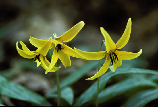 Picture of an Erythronium americanum, a plant from the Liliaceae family.